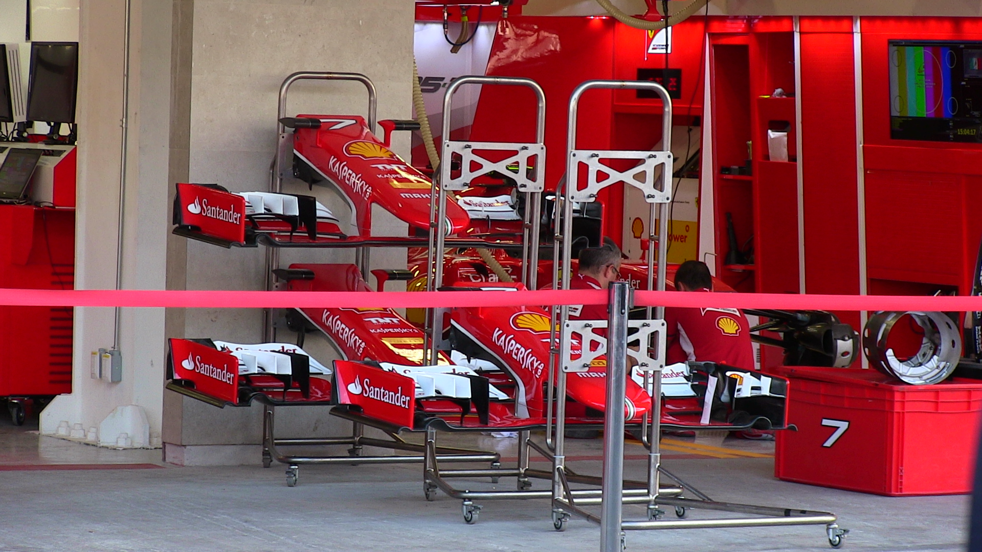 PitWalk Mexican Grand Prix 2015, Autódromo Hermanos Rodríguez. Mexico City, Mexico.